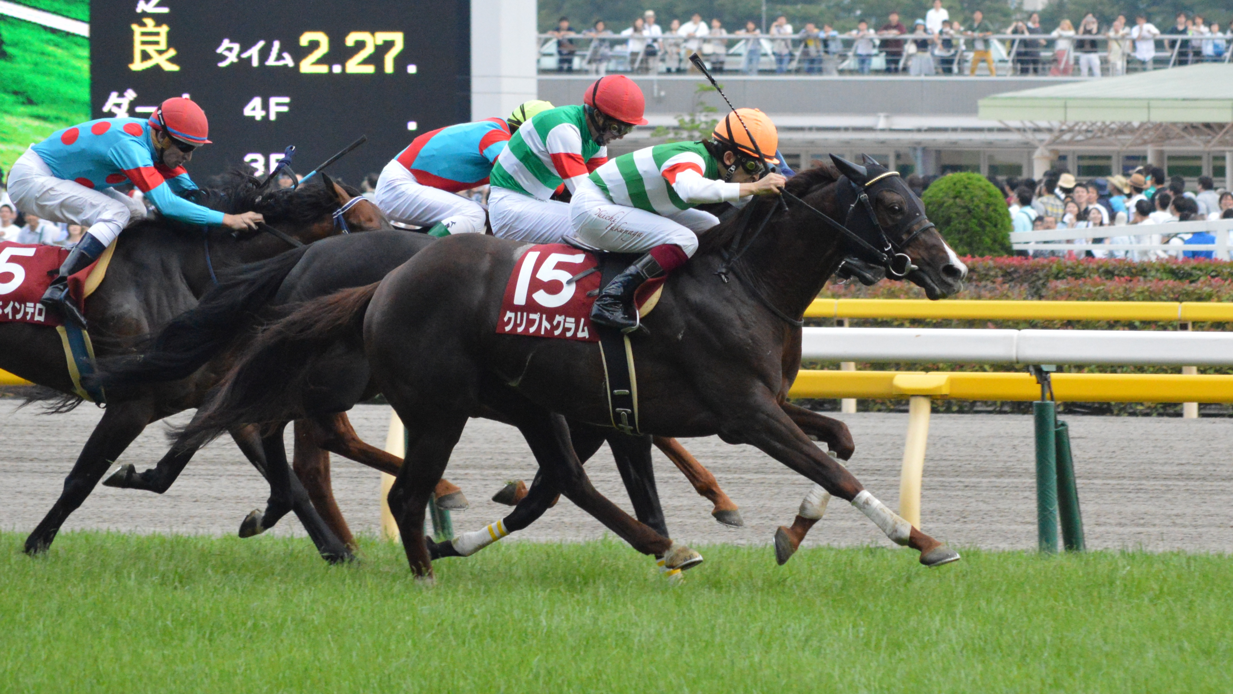 Japanese race horse Cryptogram at Tokyo racecourse.